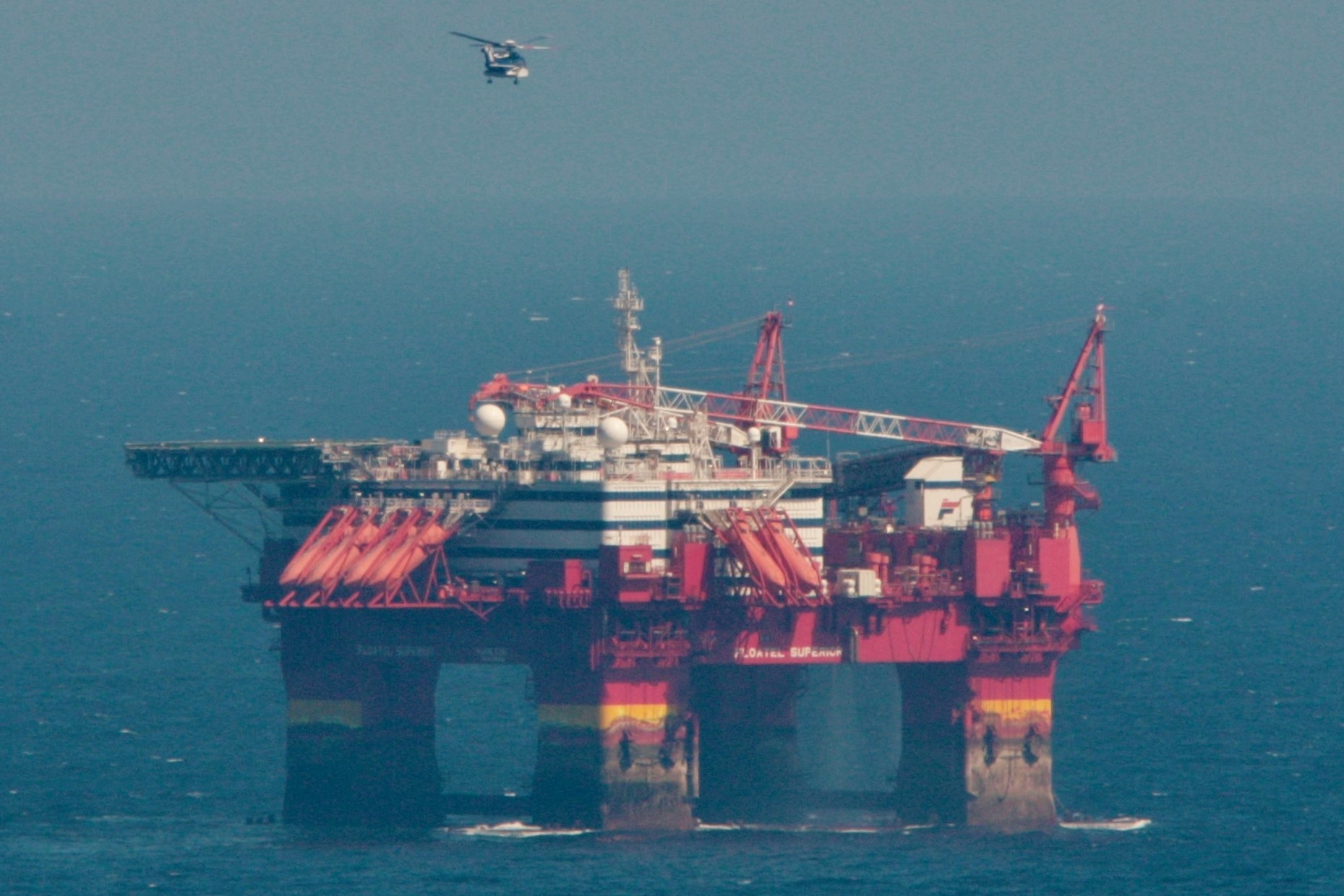 De-manning operations